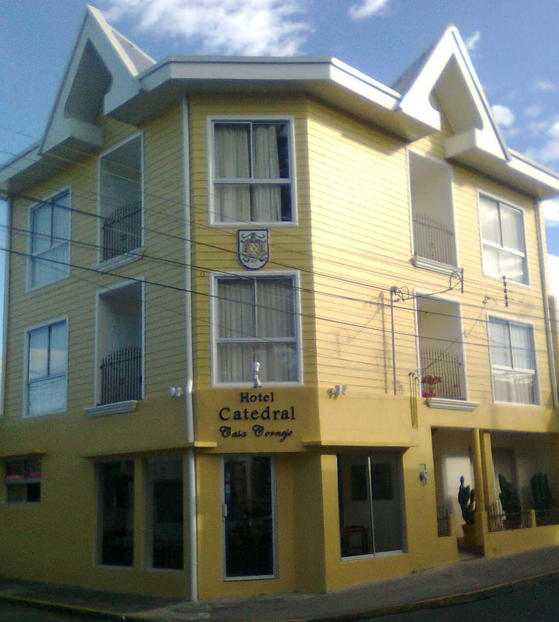 Hotel Catedral